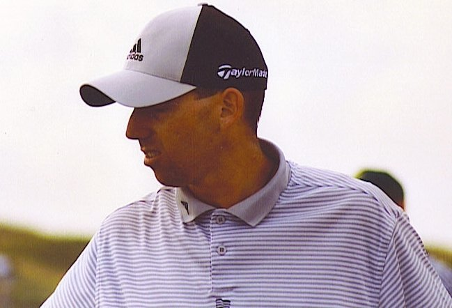 Sergio Garcia, Spain at 2004 PGA Championship